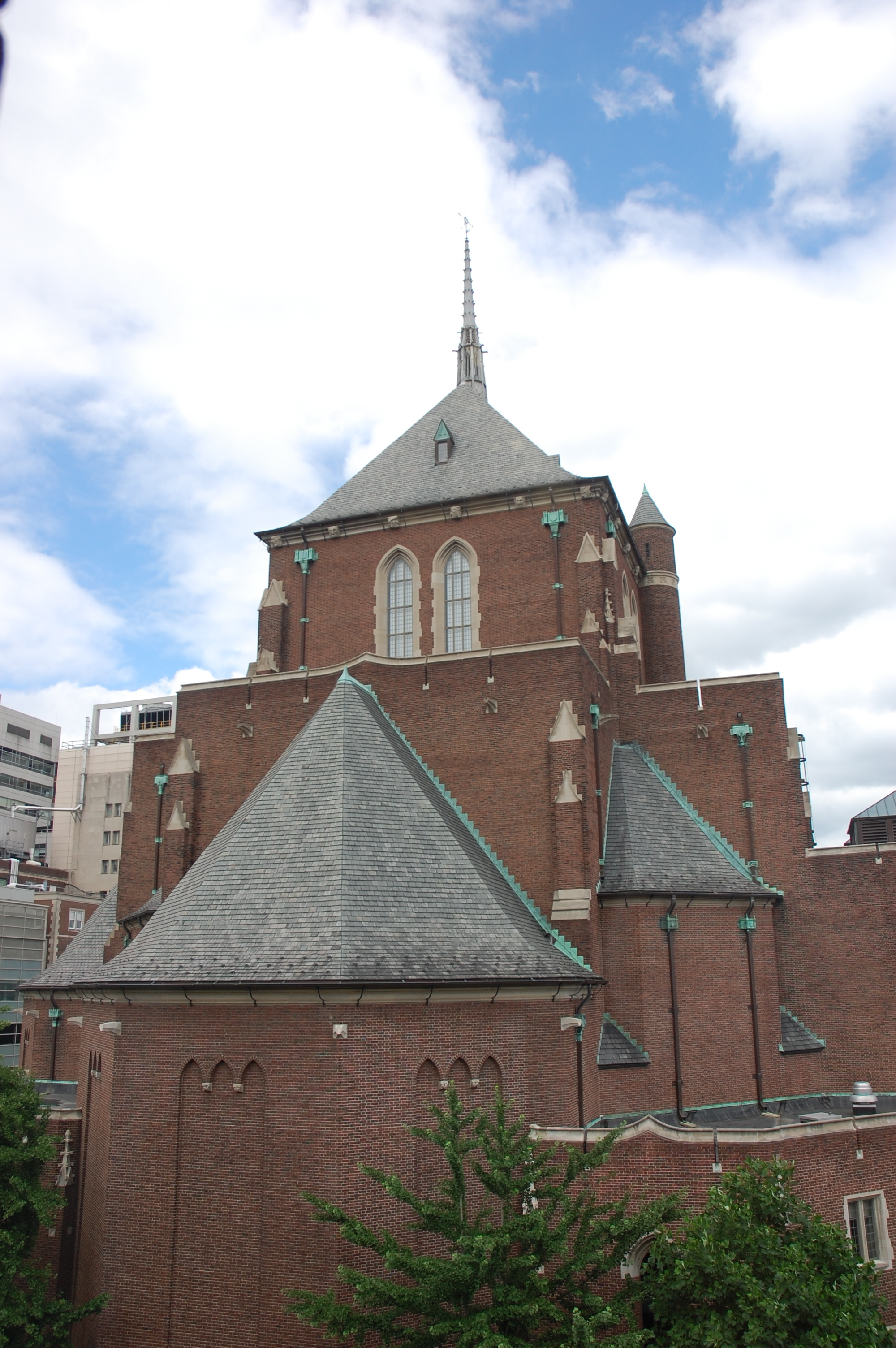 Irvine Auditorium from Chemistry Department